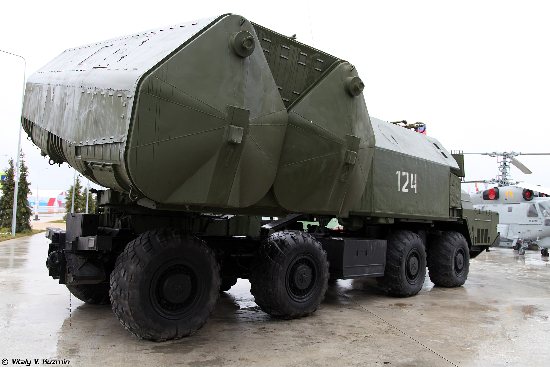 S51 TELAR of 4K51 Rubezh coastal missile system